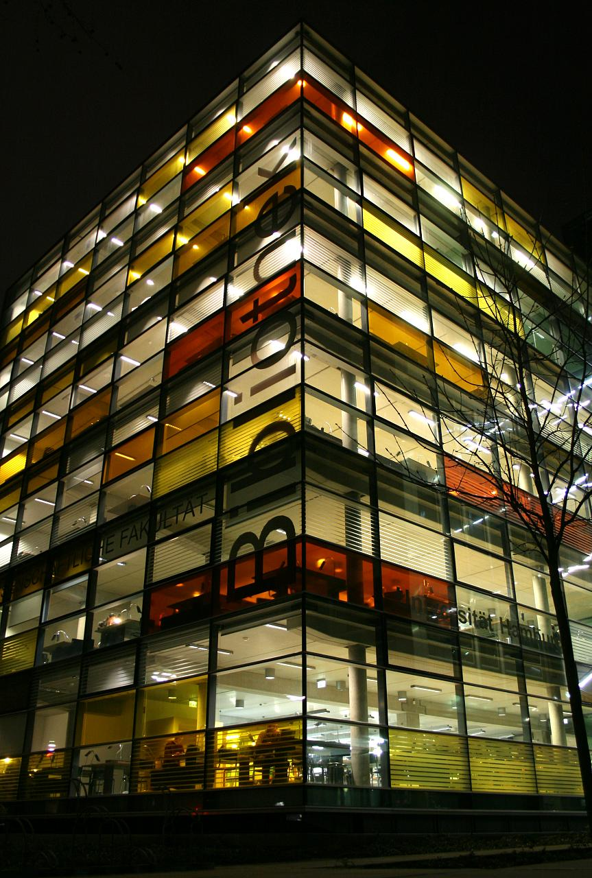 Zentralbibliothek Recht der Universität Hamburg Library of law school